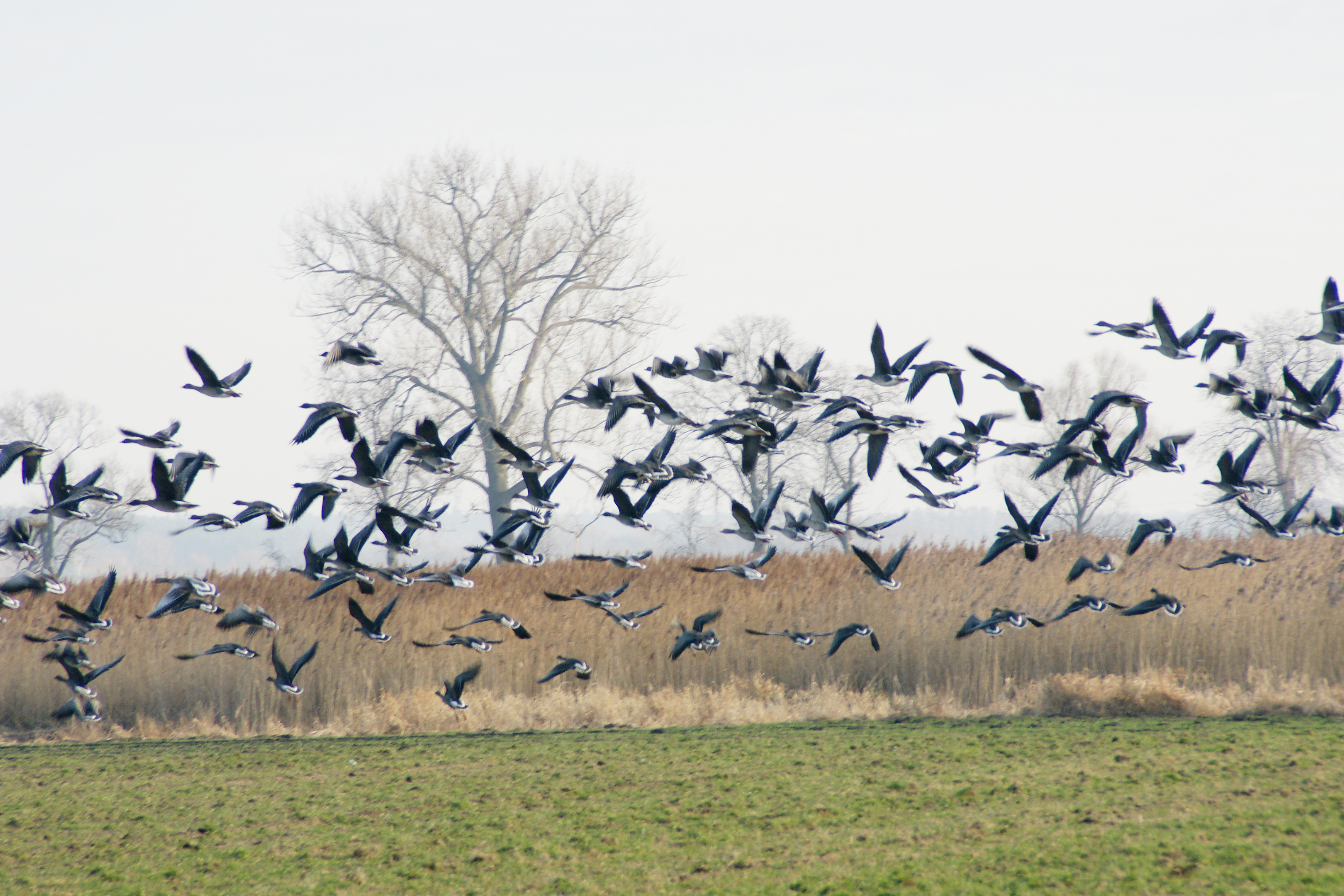 Mixed flock of (mostly) Bean Geese and (a few) Greylag Geese, Pritzerbe, Germany